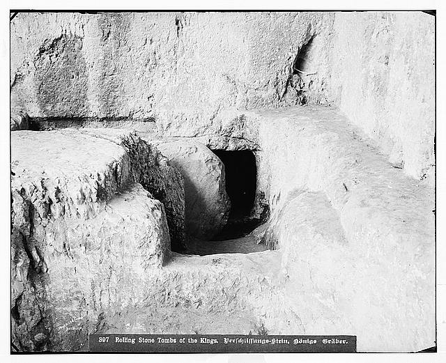 Rolling stone at Tombs of the Kings. Jerusalem